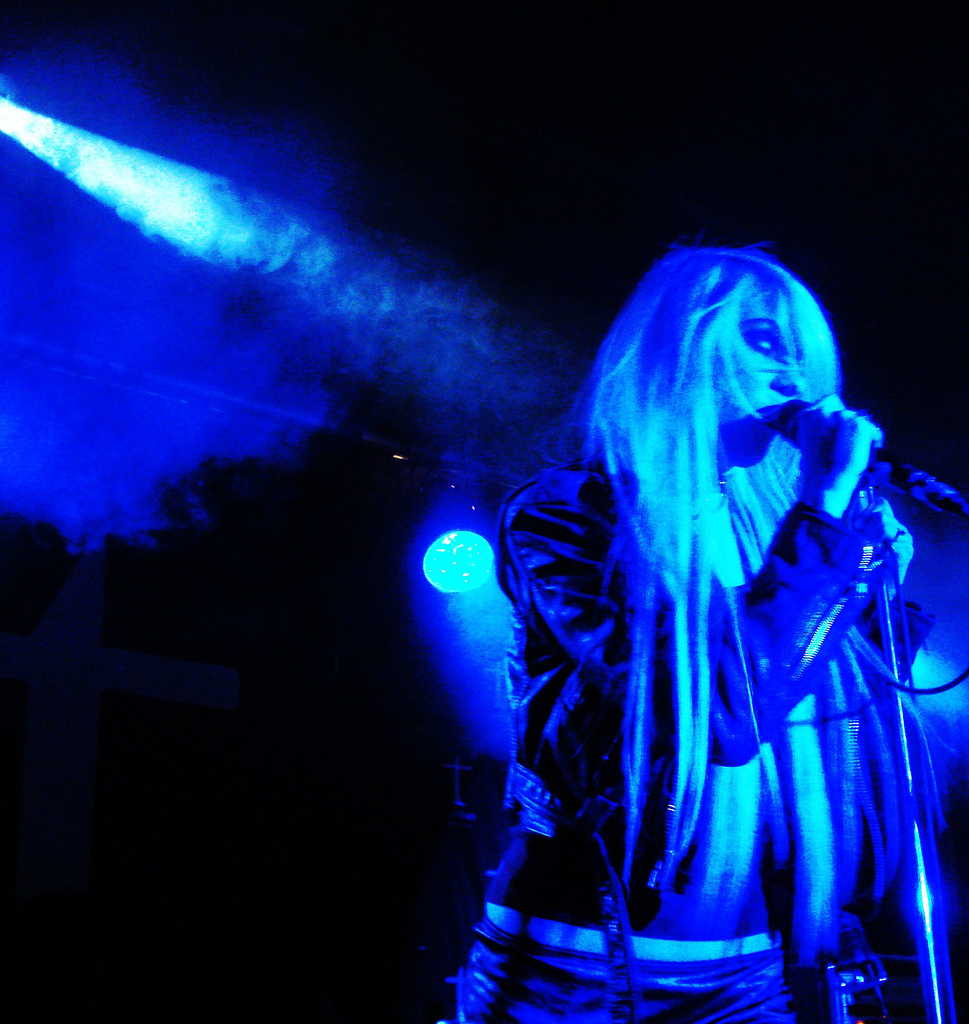 The Pretty Reckless live at Tattoo Rock Parlour on Toronto's Queen Street West on Saturday February 26th 2011.